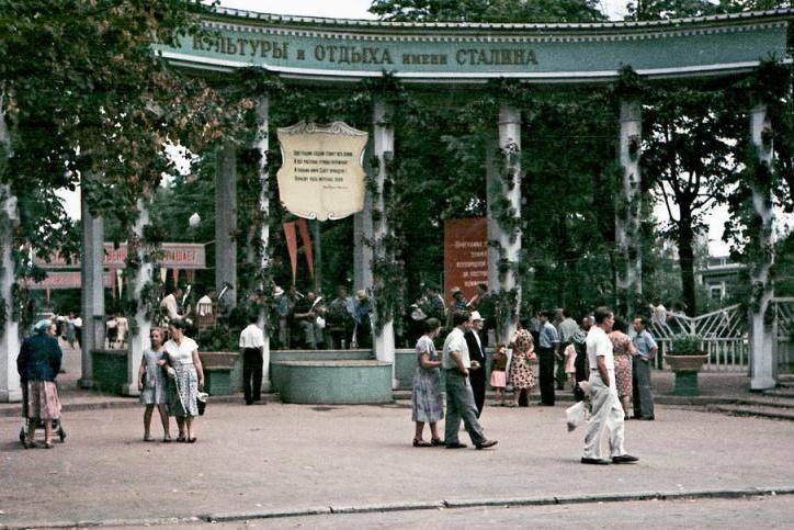 Moscow park, old photo